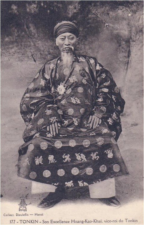 Vietnamese Mandarin Hoang Cao Khai (1850 - 1933).